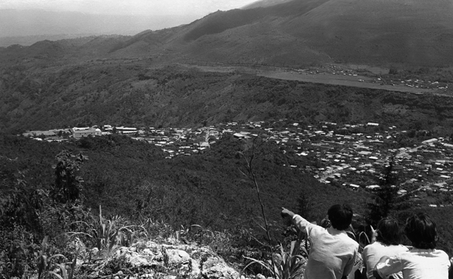 Jacaltenango in foreground and San Marcos beyond.